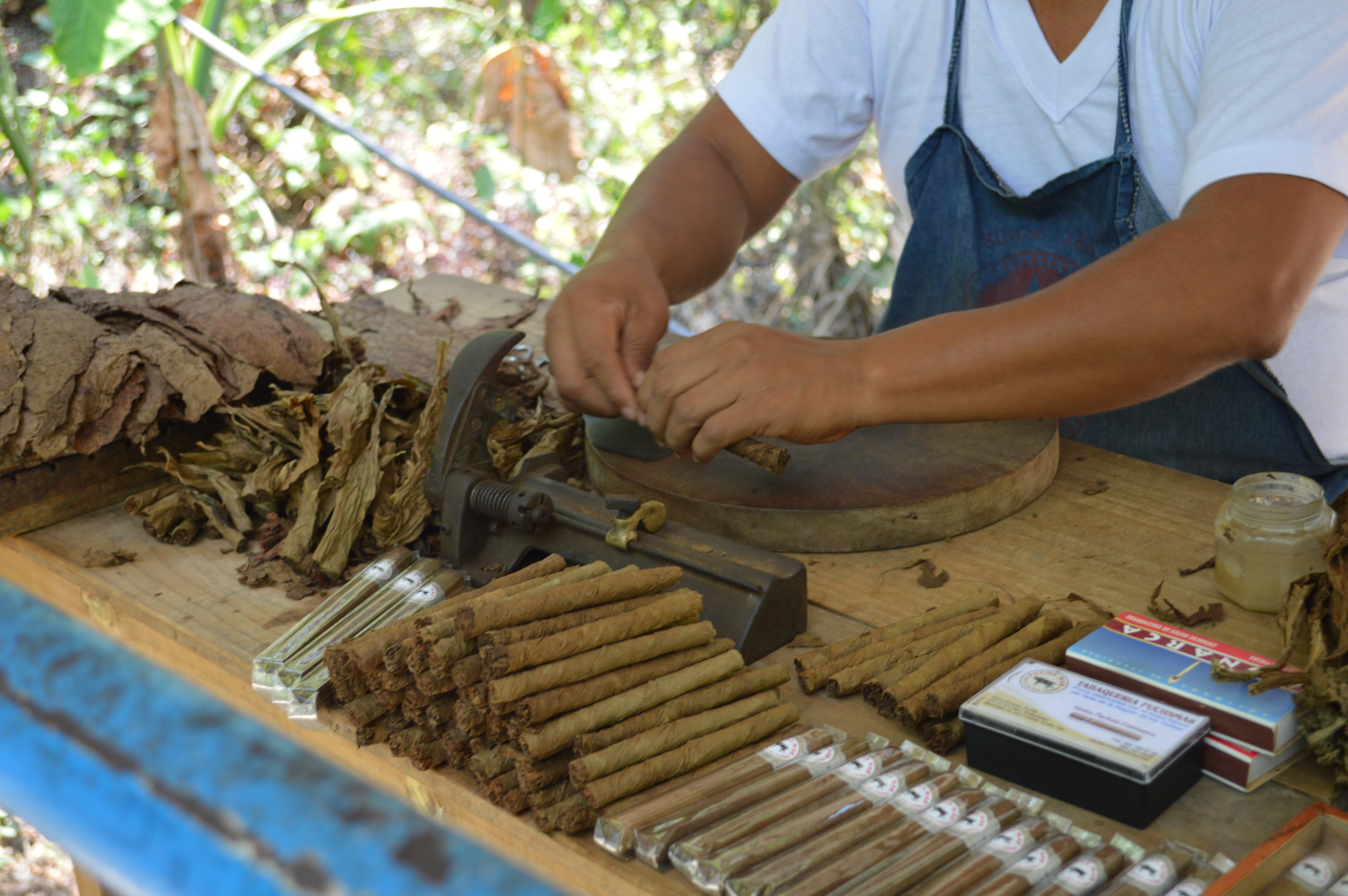 Man rolling cigars at the Eyipantla Waterfall, San Andres Tuxtla, Veracruz, Mexico